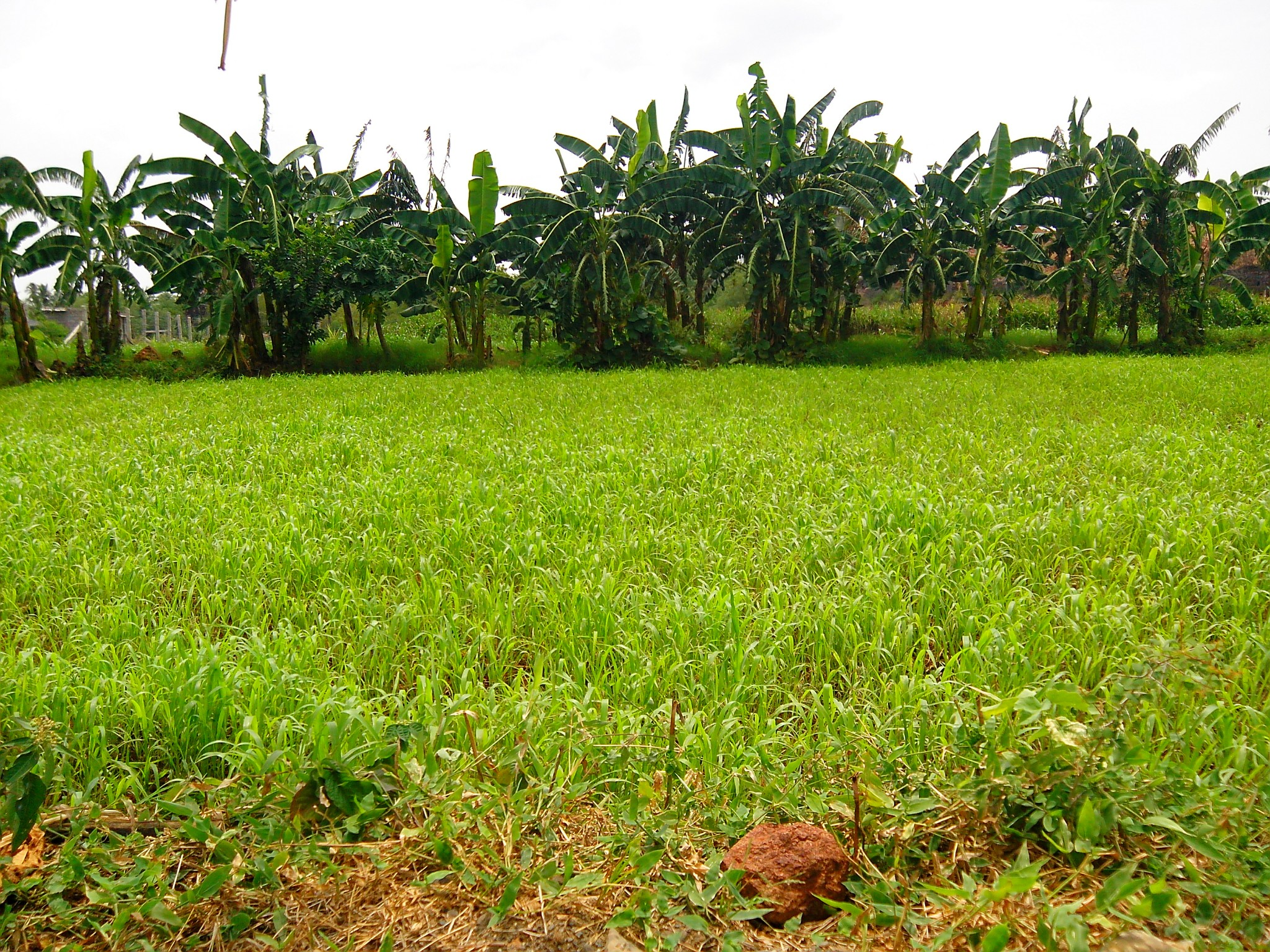 Forage Sorghum of Tamilnadu